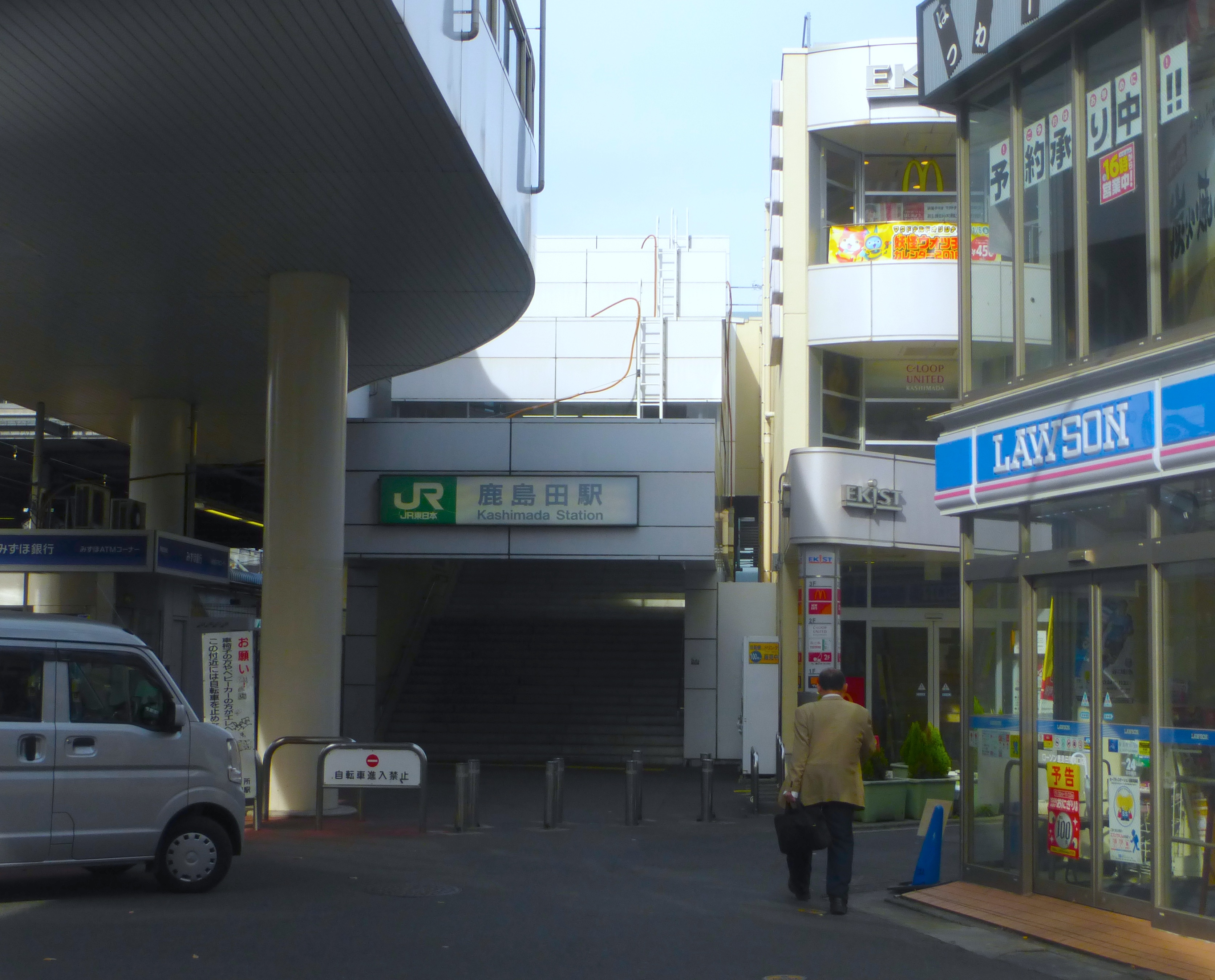 The east entrance to Kashimada Station on the Nambu Line in Kanagawa Prefecture, Japan